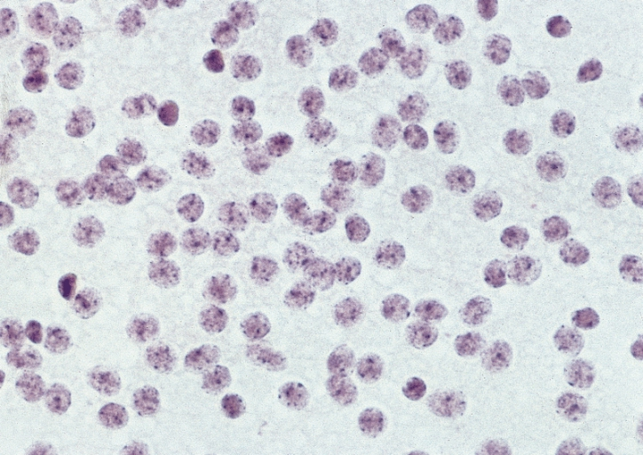 CNS: CENTRAL NEUROCYTOMA Remarkably uniform round nuclei with a "salt and pepper" chromatin pattern are typical of this lesion. Cytoplasm and processes are inapparent.